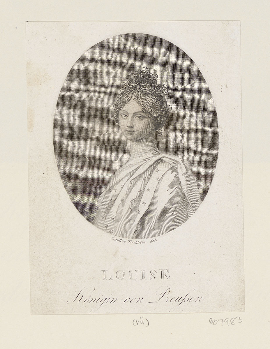 Engraving of Louise of Mecklenburg-Strelitz, Queen of Prussia. Half length with curled hair, gown, and shawl decorated with stars. Oval with German inscription below. Engraving by Heinrich Friedrich Thomas Schmidt after a drawing of Caroline Tischbein; 11.4 x 8.6 cm (sheet of paper); 8.0 x 6.6 cm (image)